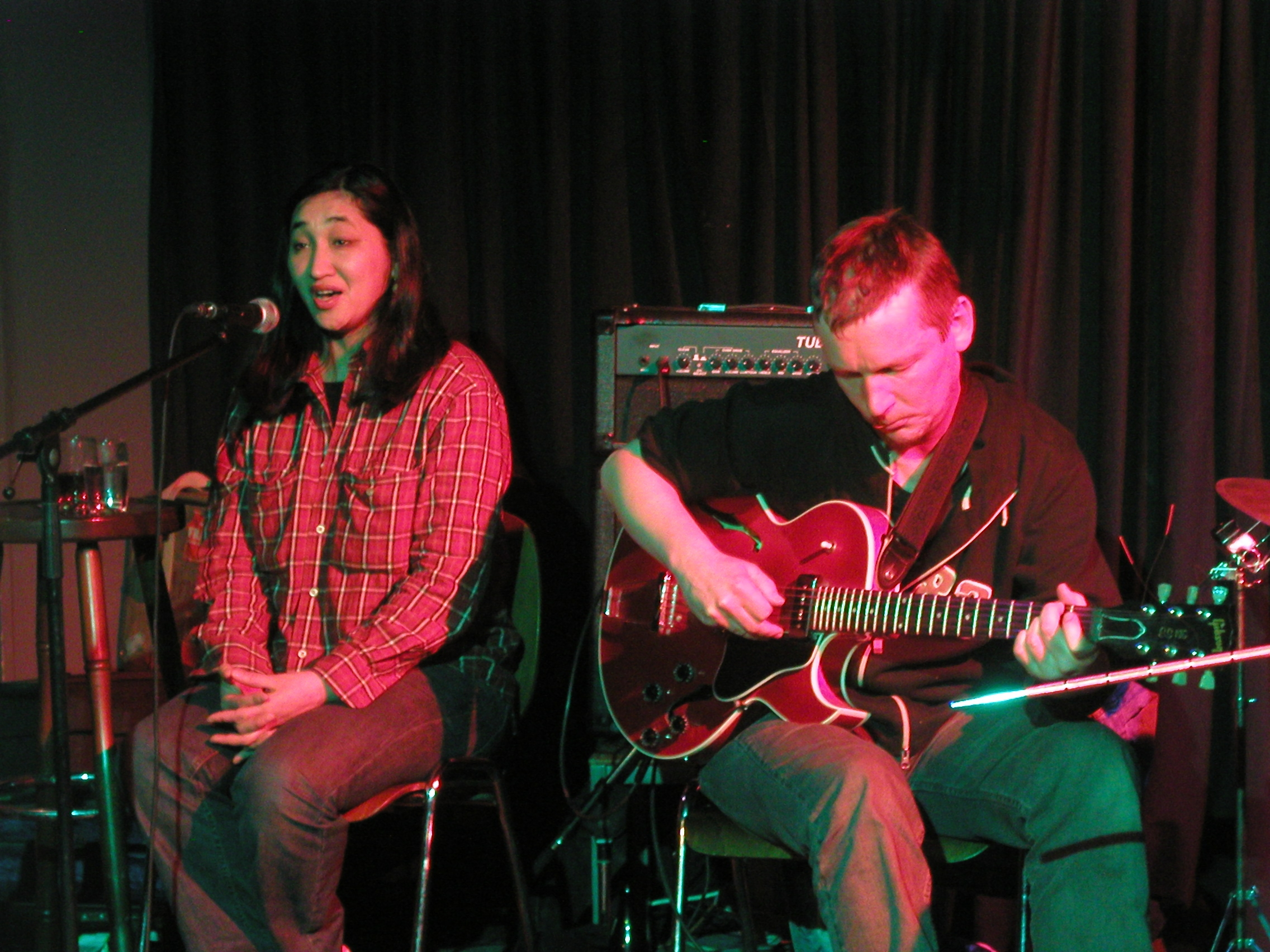 concert with blast in club w71 in weikersheim